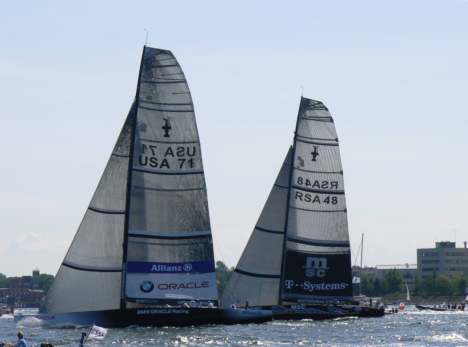 German Sailing Grand Prix Kiel 2006. Teams: BMW Oracle Racing + Team Shosholoza.